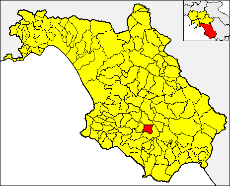 Locator map of the municipality of Cannalonga (red) within the Province of Salerno